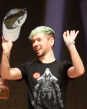 Cropped video still of Jacksepticeye on stage at PAX West 2016